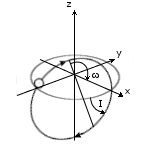 Rotation of a satellite about the x axis through the inclination angle.